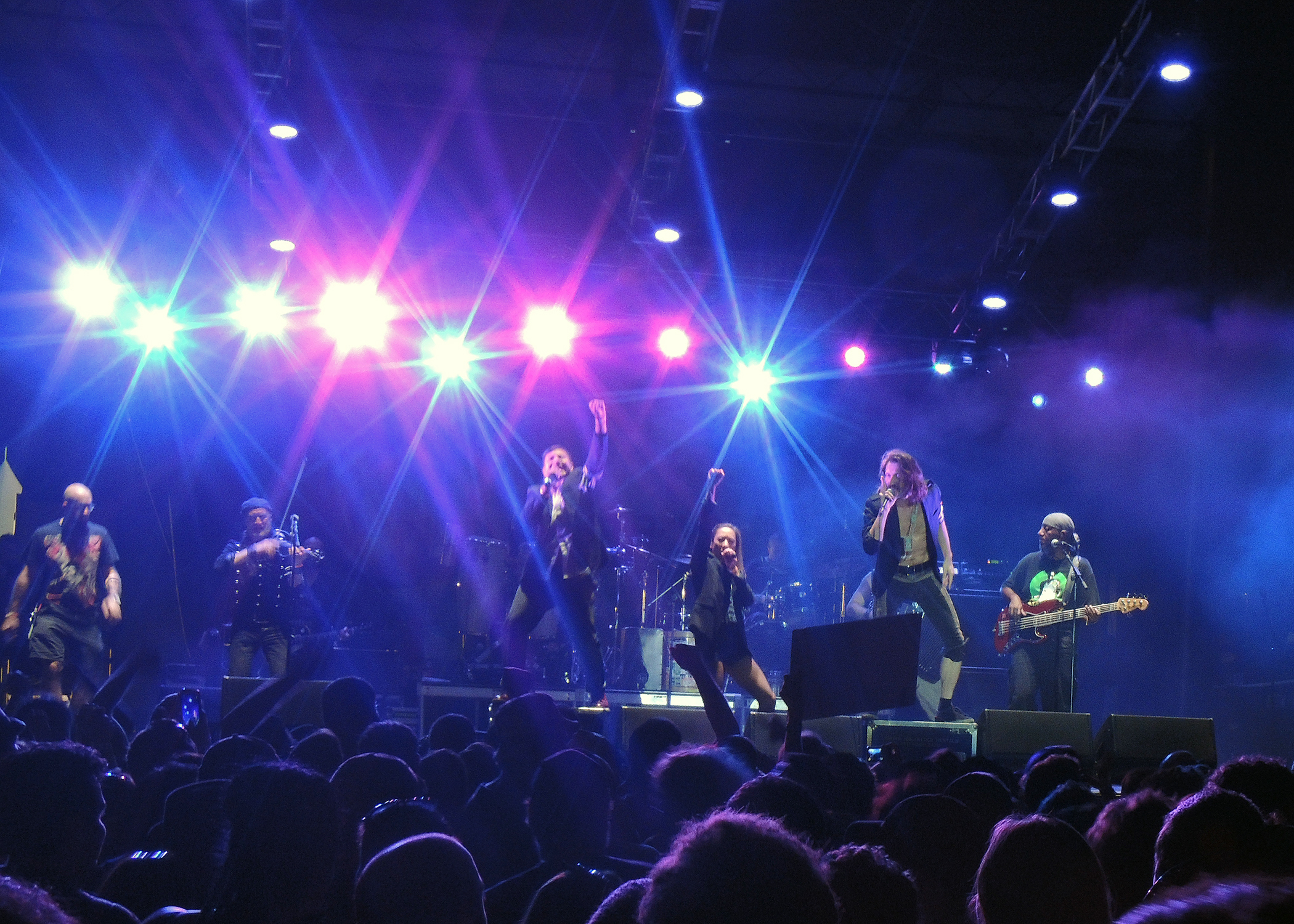 Gogol Bordello performing at The Shindig, Carroll Park, Baltimore, MD in 2014